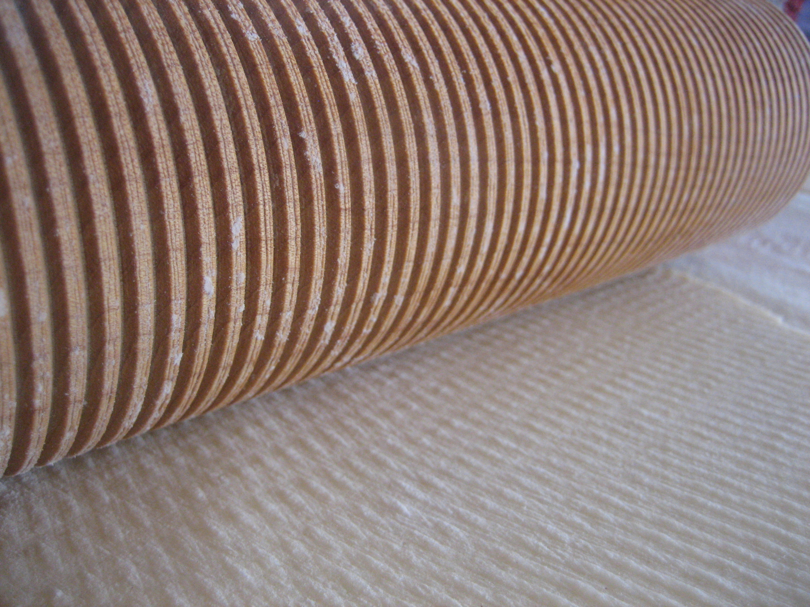 A special rolling pin used to make lefse.